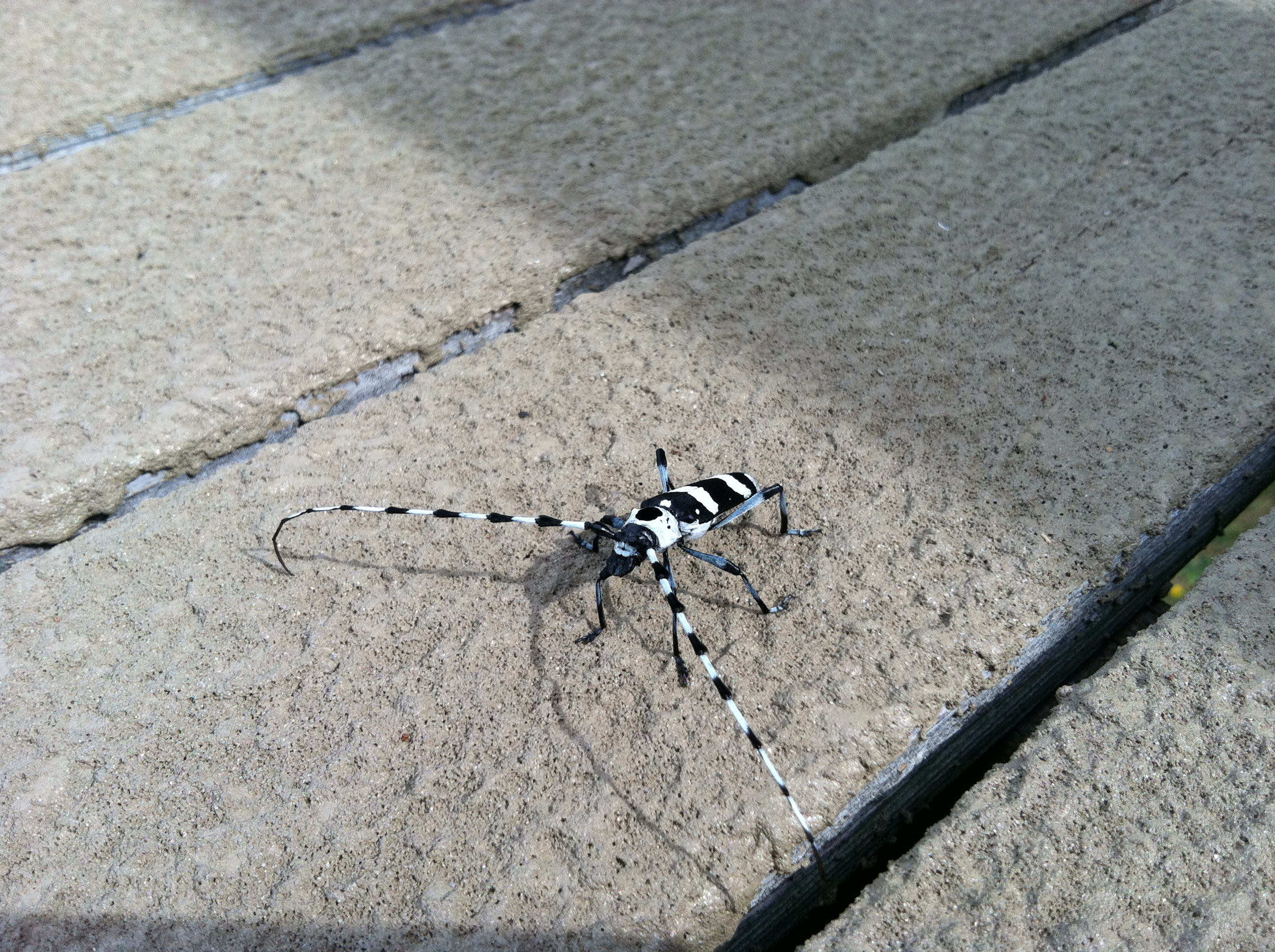 Rosalia funebris. A member of the family of longhorn beetles.